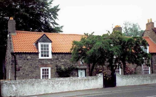 Dial Cottage ( George Stephenson's Cottage) , Westmoor. This is 'Dial Cottage', Westmoor ( formerly Killingworth Colliery in the 19th Century). George Stephenson lived here when he was the engineer at Killingworth Colliery. It was in workshops at the rear of this cottage, that the famous 'Rocket' locomotive was built. The cottage is now a museum. George Stephenson also made the sun dial over the front door, which gives the cottage its name.